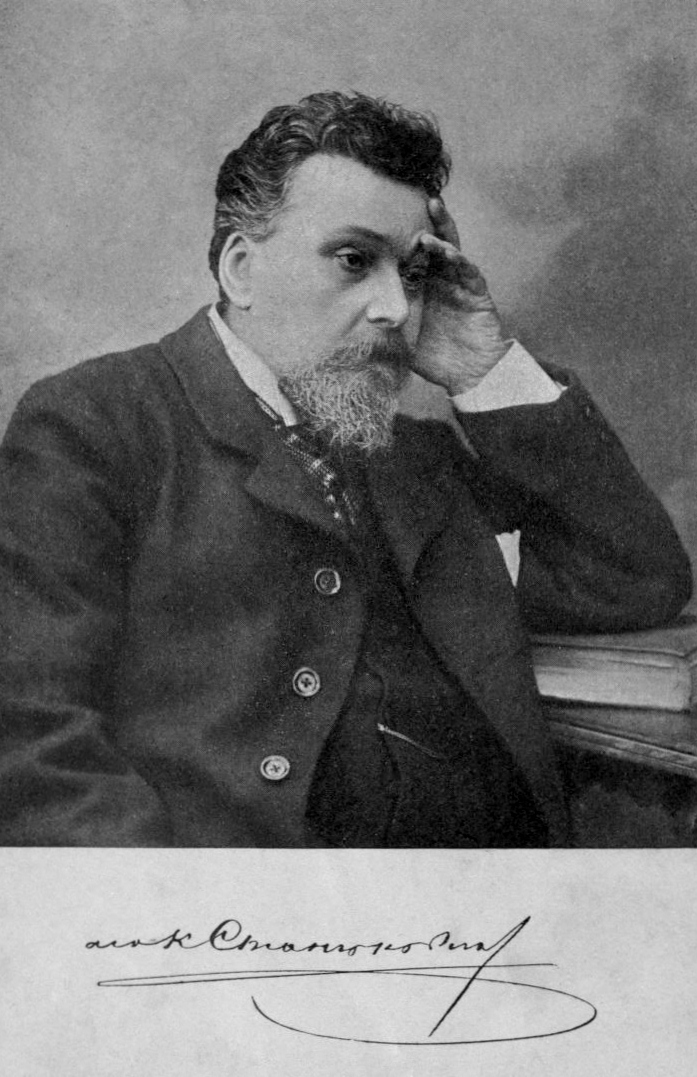 Stanyukovich